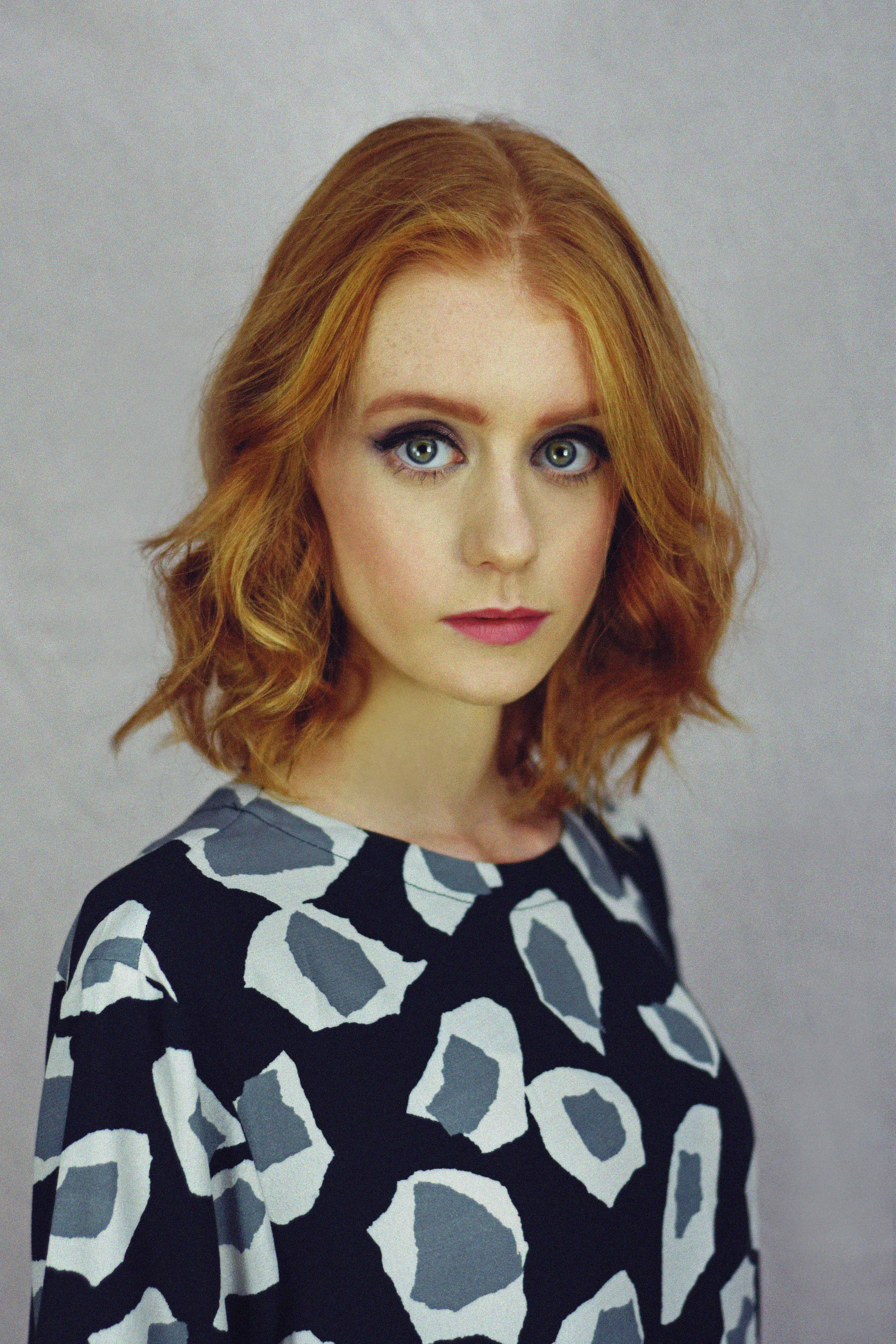 Lauren McCrostie in 2016. Photography: Jack Alexander.